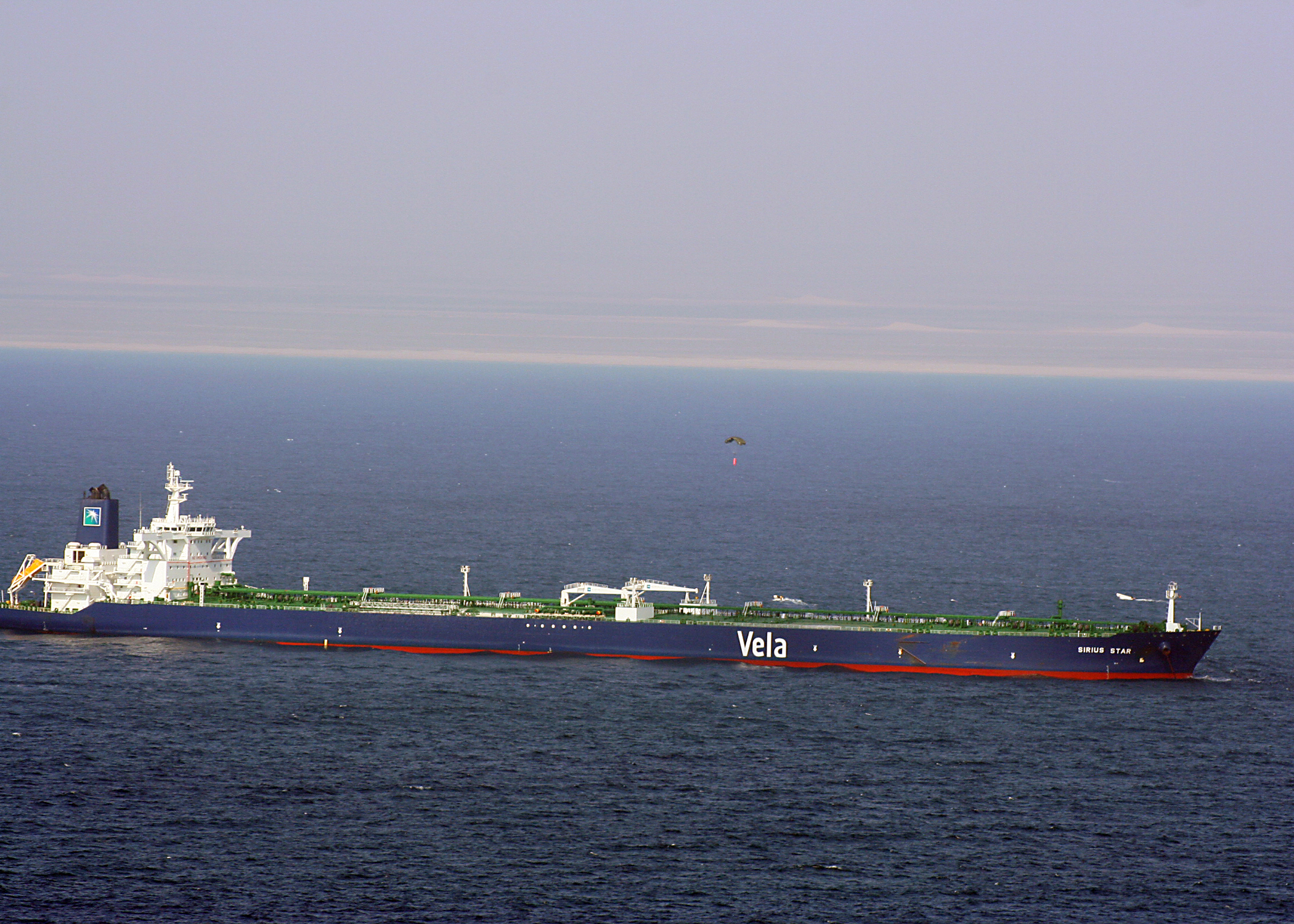 parachute dropped by a small aircraft is observed by the U.S. Navy as it drops over the MV Sirius Star during an apparent payment via a parachuted container to pirates holding the Sirius Star. The U.S. 5th Fleet conducts maritime security operations to promote stability and regional economic prosperity.